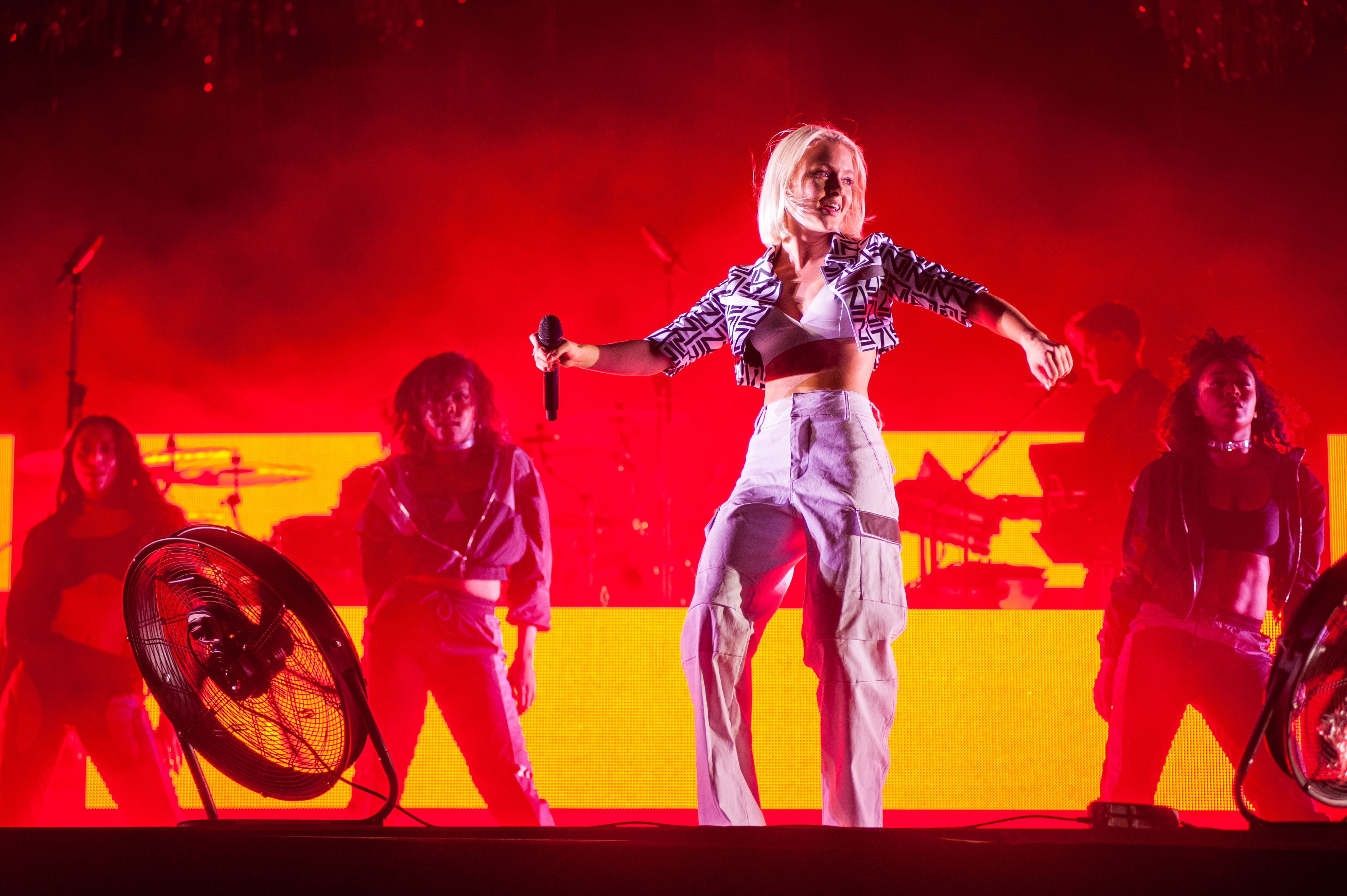 Swedish singer Zara Larsson performing at the 2018 Ilosaarirock festival in Joensuu, Finland.